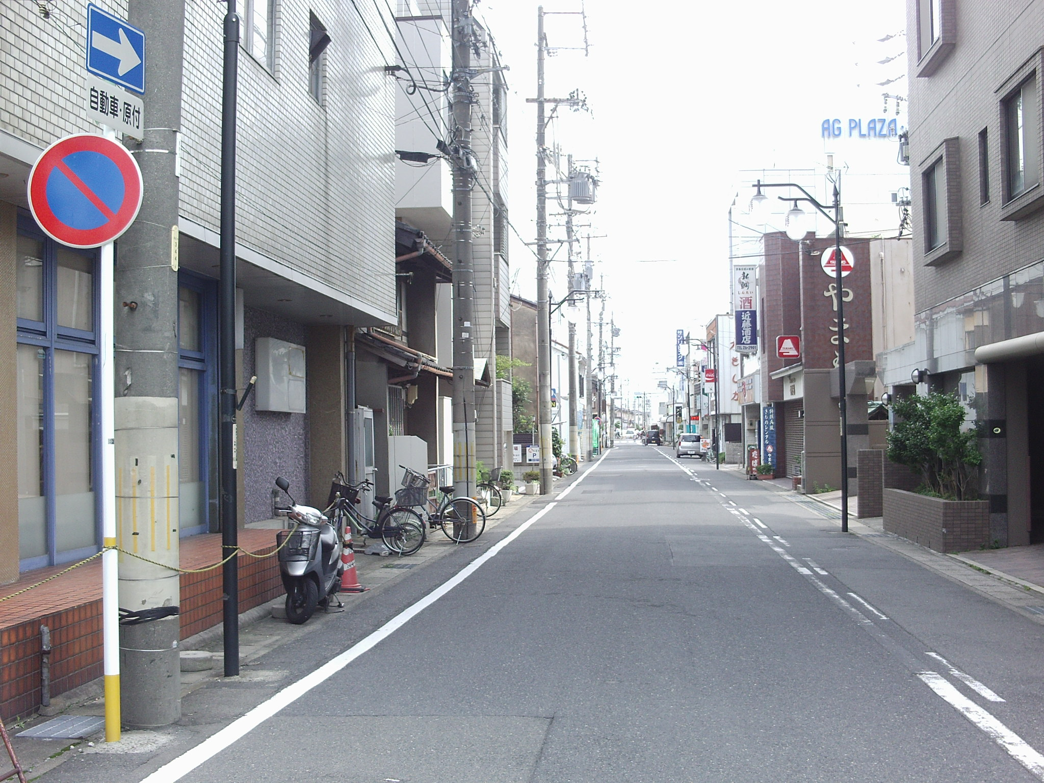 Aichi prefectural road No.118 in Nishikimachi, Tsushima, Aichi.